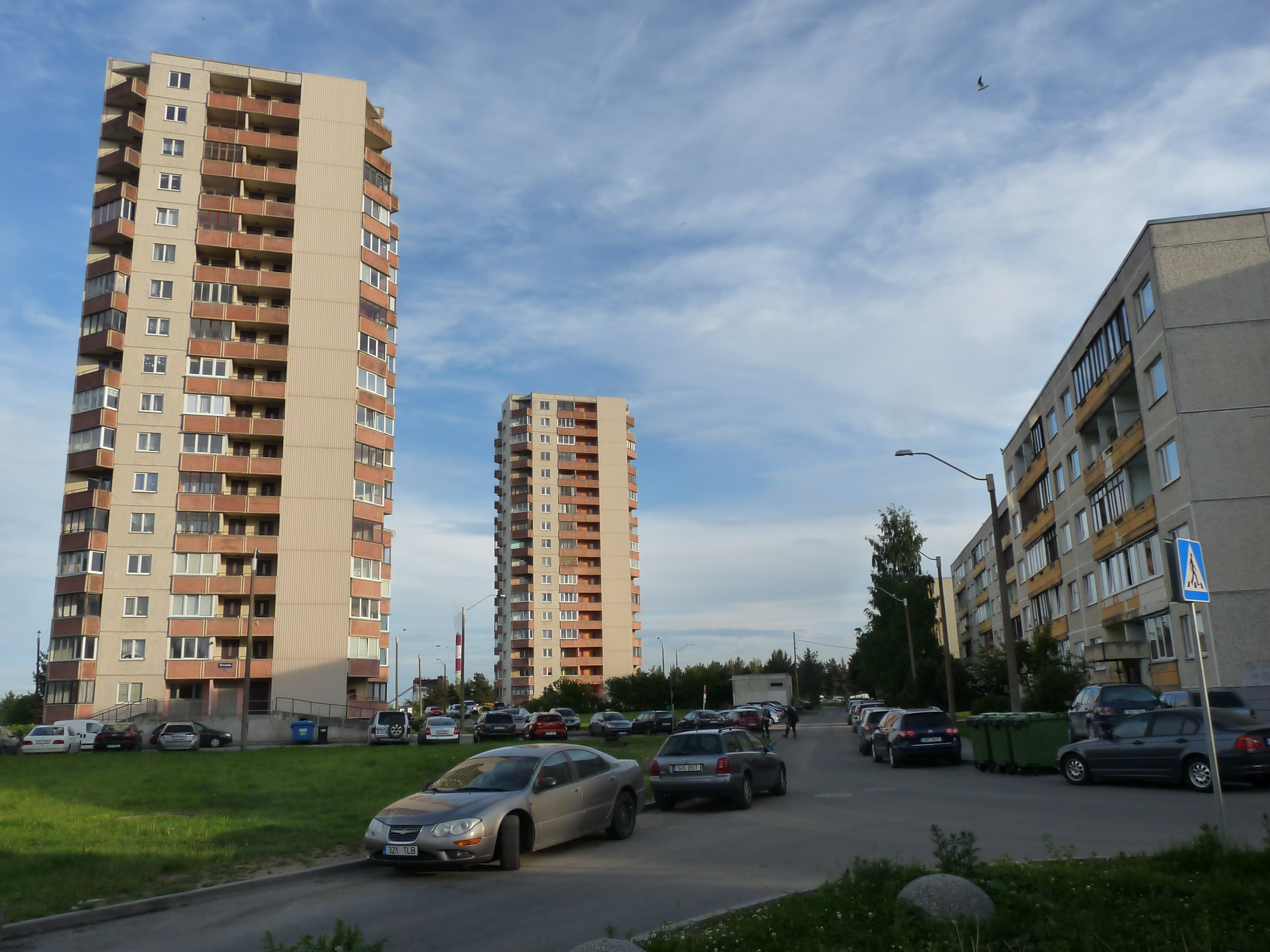 Sinimäe street in Tallinn, Estonia